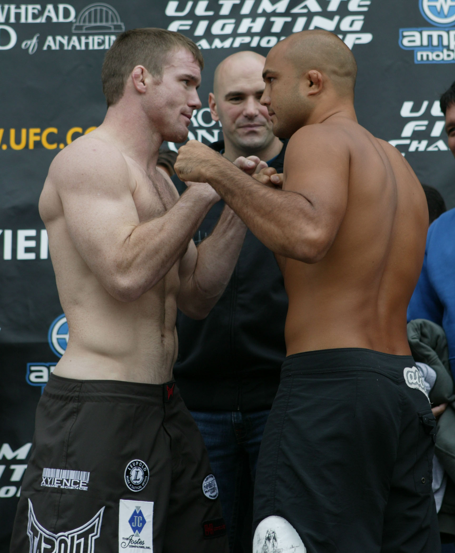 Cropped from original image by Lance Cpl. Stephen McGinnis.